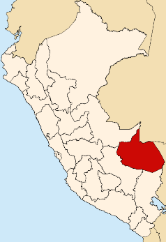 Map of Peru highlighting the Madre de Dios region